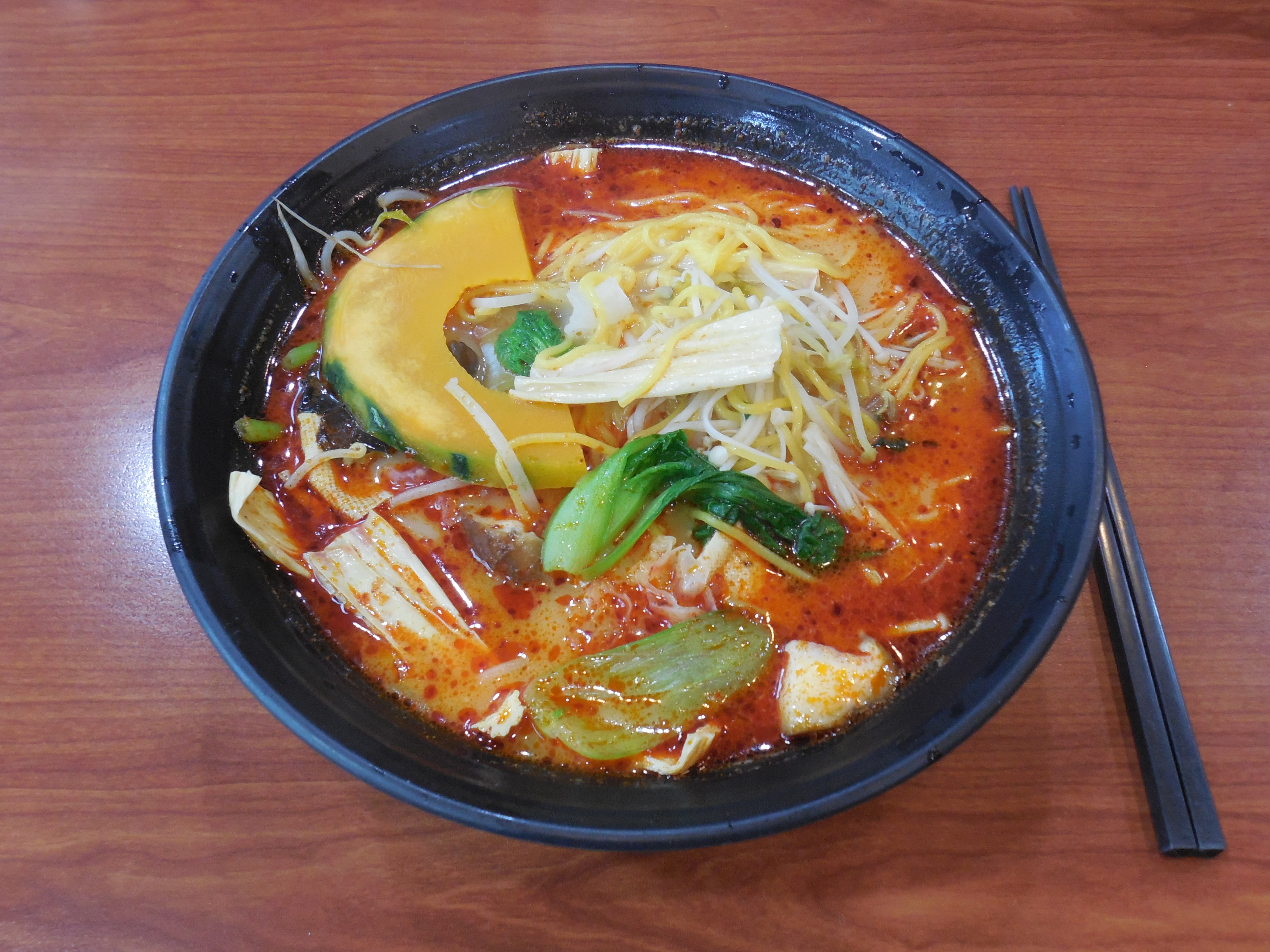 Malatang from Seoul, South Korea.